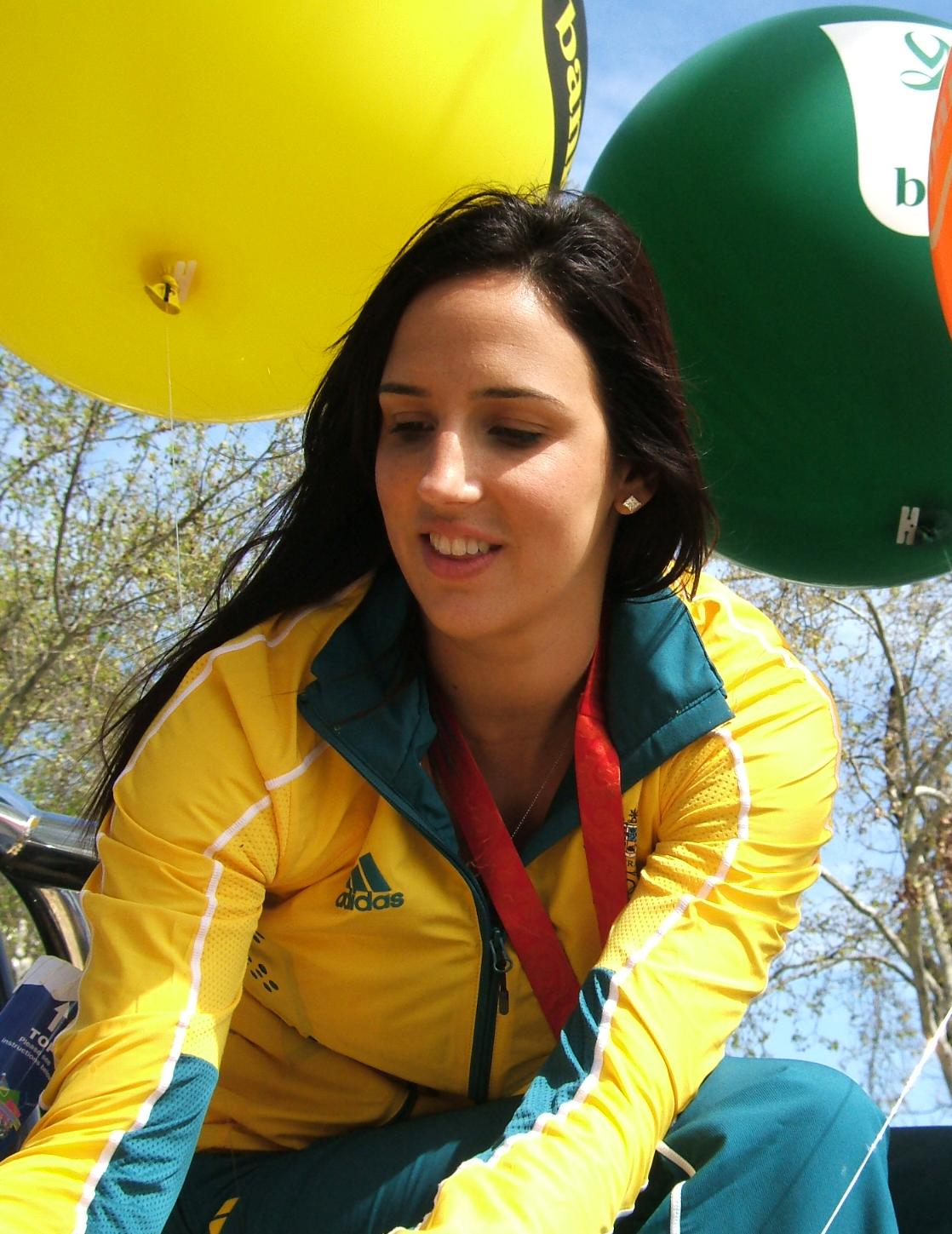 Laura Summerton at the 2008 Olympic homecoming parade in Adelaide